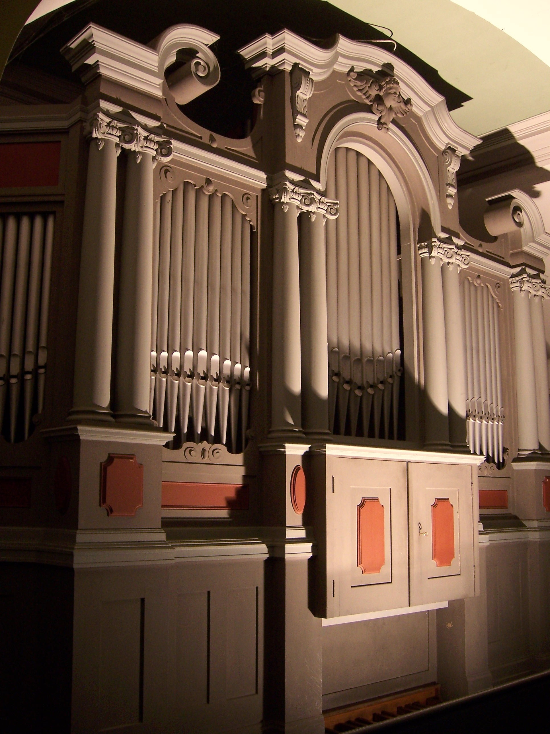 The original "Dinseorgan"